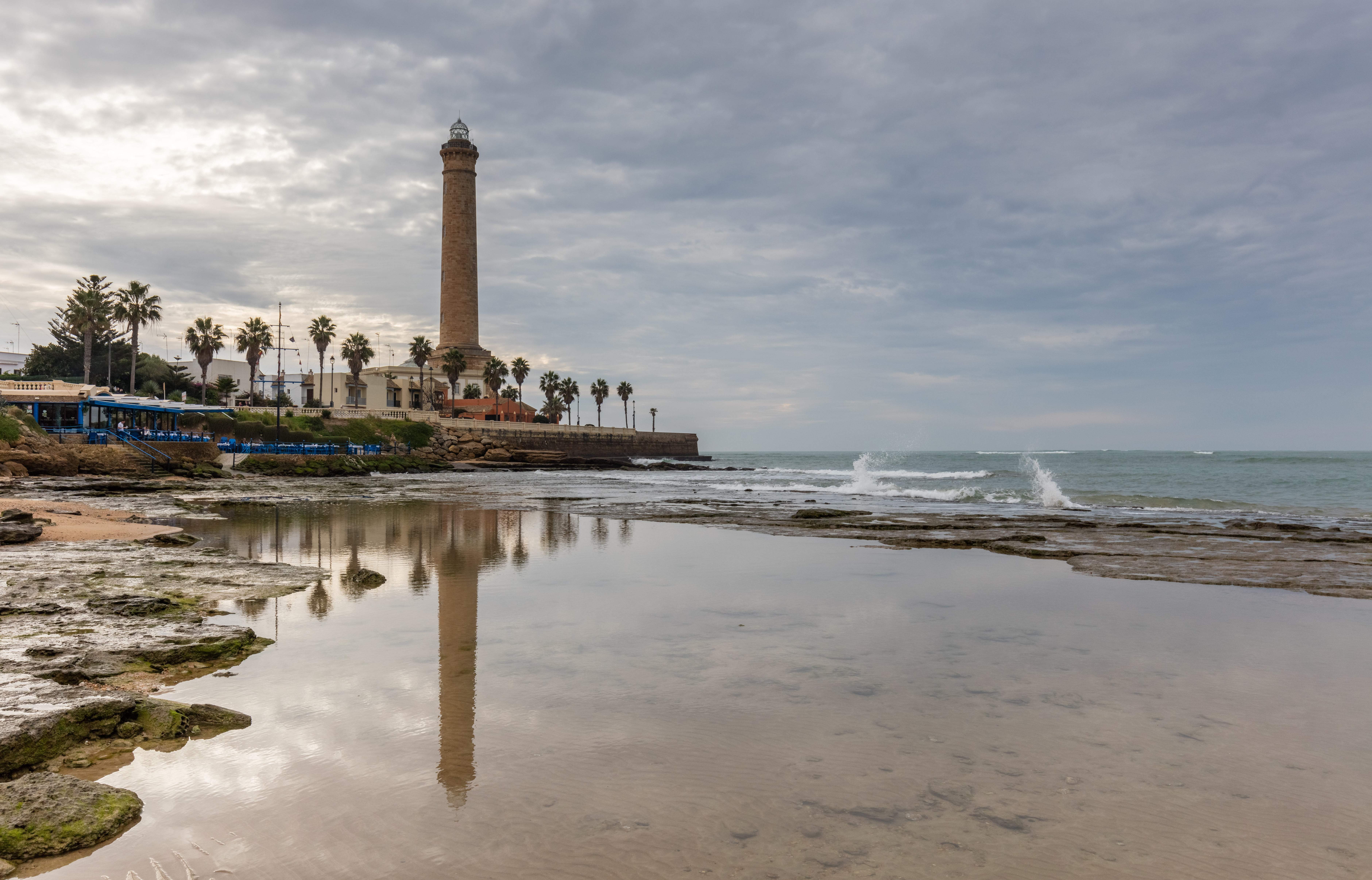 The 62 metres (203 ft) high lighthouse of Chipiona, located in Chipiona, province of Cádiz, Andalusia, is the highest in Spain and one of the highest in the world. The lighthouse was inaugurated in 1869 and helps the ships to enter the estuary of the Guadalquivir river, the only one navigable in Spain.